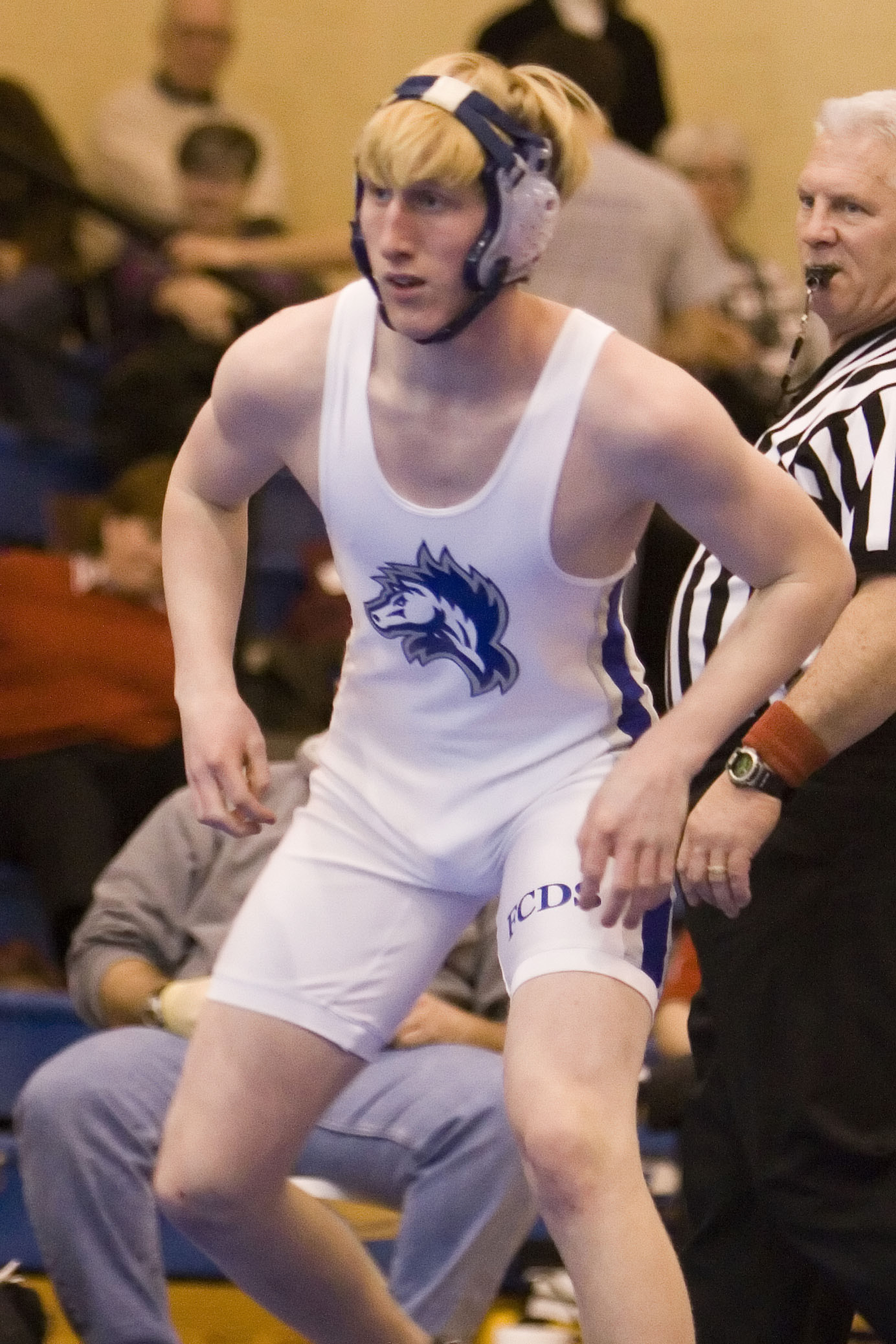 Two high school students wrestling (collegiate, scholastic, or folkstyle) in the United States. One of them, pictured here, is wearing a white wrestling singlet. Originally uploaded by Wikiman86 on the English Wikipedia project at